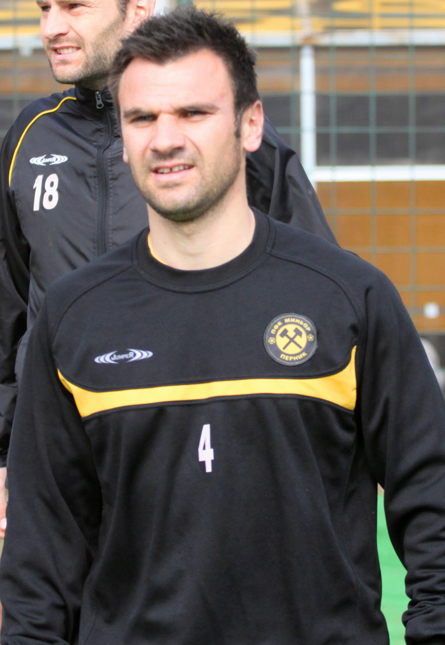 Nikolay Hristozov - bulgarian soccer player, defender, he played for PFK Minior Pernik.